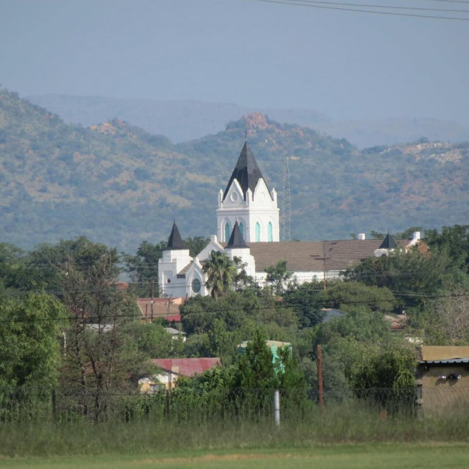 Bethanie